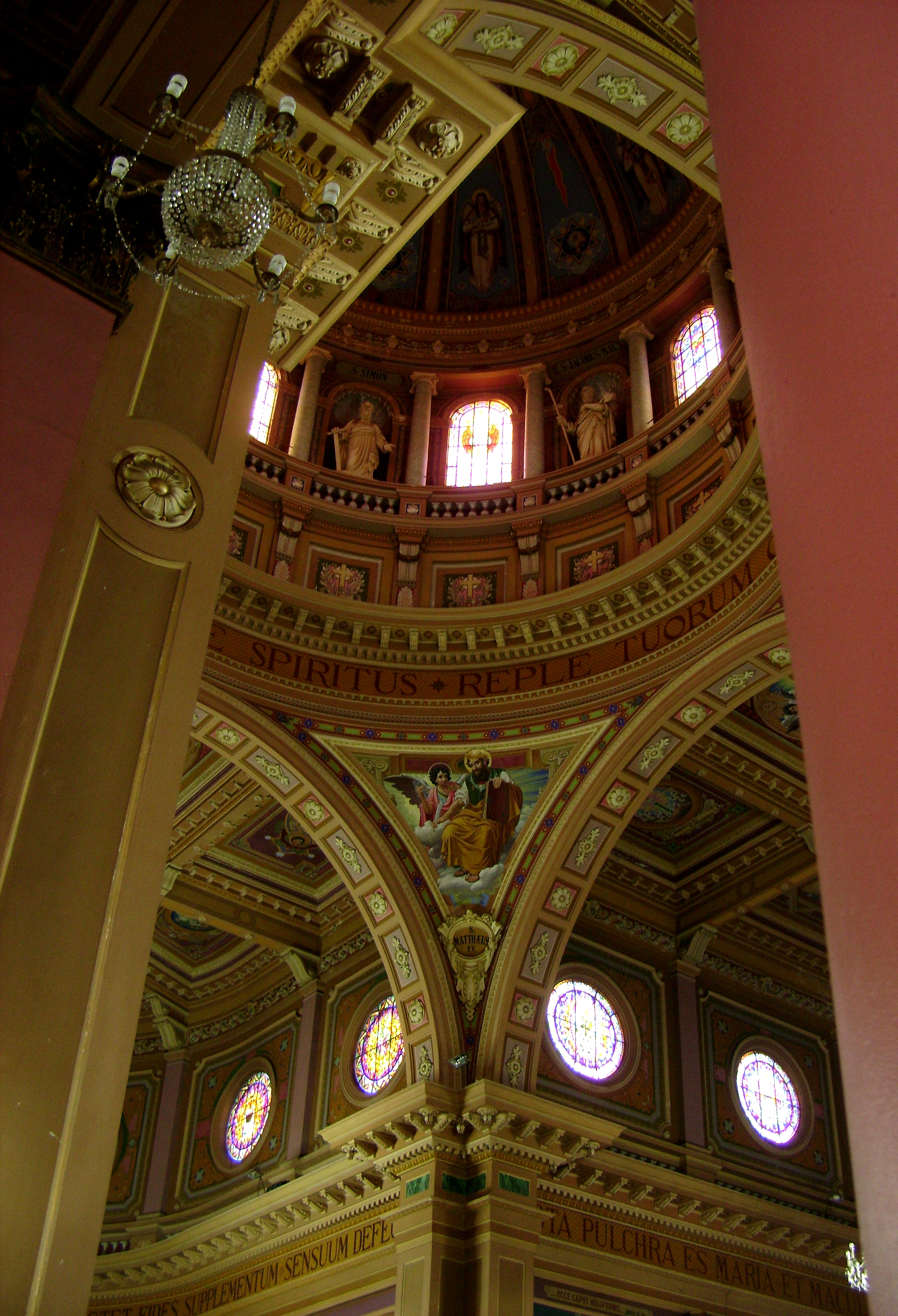 Interior of the Church of Saint Anthony at Americana-SP, Brazil